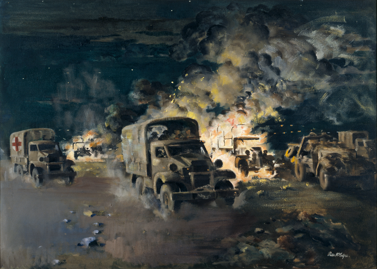 Surrounded by fast-moving German forces and facing defeat, the encircled New Zealand Division launched a spectacular breakout at Minqar Qaim on the night of 27-28 June 1942. "In the aftermath of Crusader, the New Zealanders licked their wounds back in Egypt" notes .nz. "With 879 dead and 1700 wounded, the New Zealand Division had fought its most costly battle of the war. In February 1942, at the New Zealand government's insistence, they moved to Syria to recover." However when Rommel launched a fresh offensive in the Western Desert, the Division was recalled and moved to face the advancing forces. It was then the Division was surrounded. That night, a plan was formulated to breakout of the encirclement. Led by the 4th Brigade, the New Zealand Division burst through the ring of German forces. In confused and ferocious close-quarter combat the New Zealanders bayoneted and shot their way through the enemy. Infantry was followed by hundreds of vehicles, driving at full pace with orders not to stop for anything. 'The breakthrough, Minqar Qa'im, 27-28 June 1942' by New Zealand war artist Peter McIntyre strikingly captures this event on canvas, and is part of the National Collection of War Art. This collection is under the care of Archives New Zealand and is comprised of about 1,500 artworks. It includes both official pieces of war art, by artists formally commissioned by the New Zealand government, and other unofficial art works that were acquired by or donated to the collection. More information on the New Zealand Division in North Africa can be found at Archives Reference: AAAC 898 NCWA 20 For updates on our On This Day series and news from Archives New Zealand, follow us on Twitter Material from Archives New Zealand